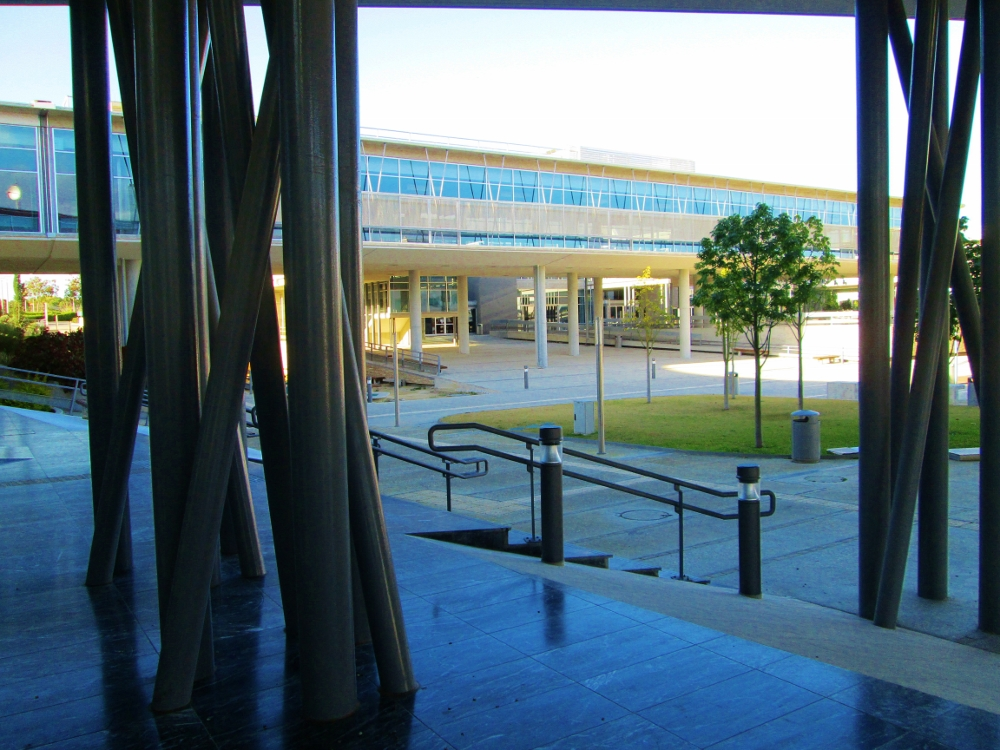 University of Cyprus base of main buildings Nicosia Republic of Cyprus